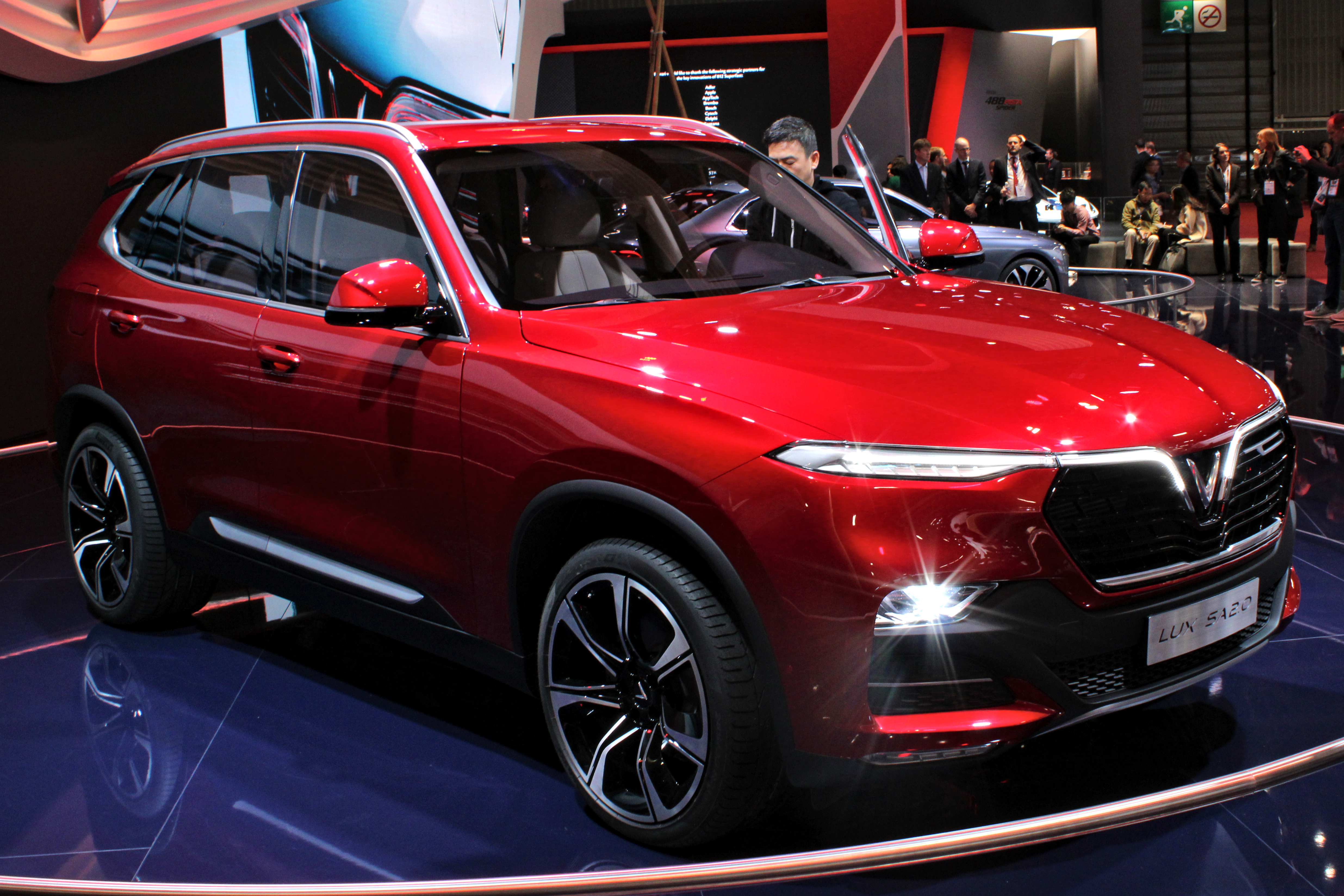 Vinfast Lux SA 2.0 at Paris Motor Show 2018